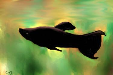 Black Molly